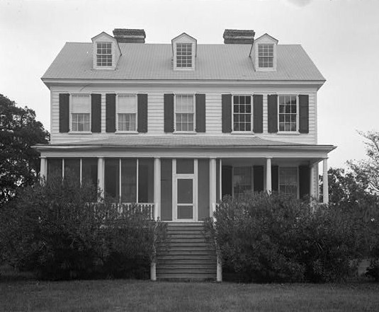 Cassina Point (House), County Road 1989 vicinity, Edisto Island (Charleston County, South Carolina) (cropped)